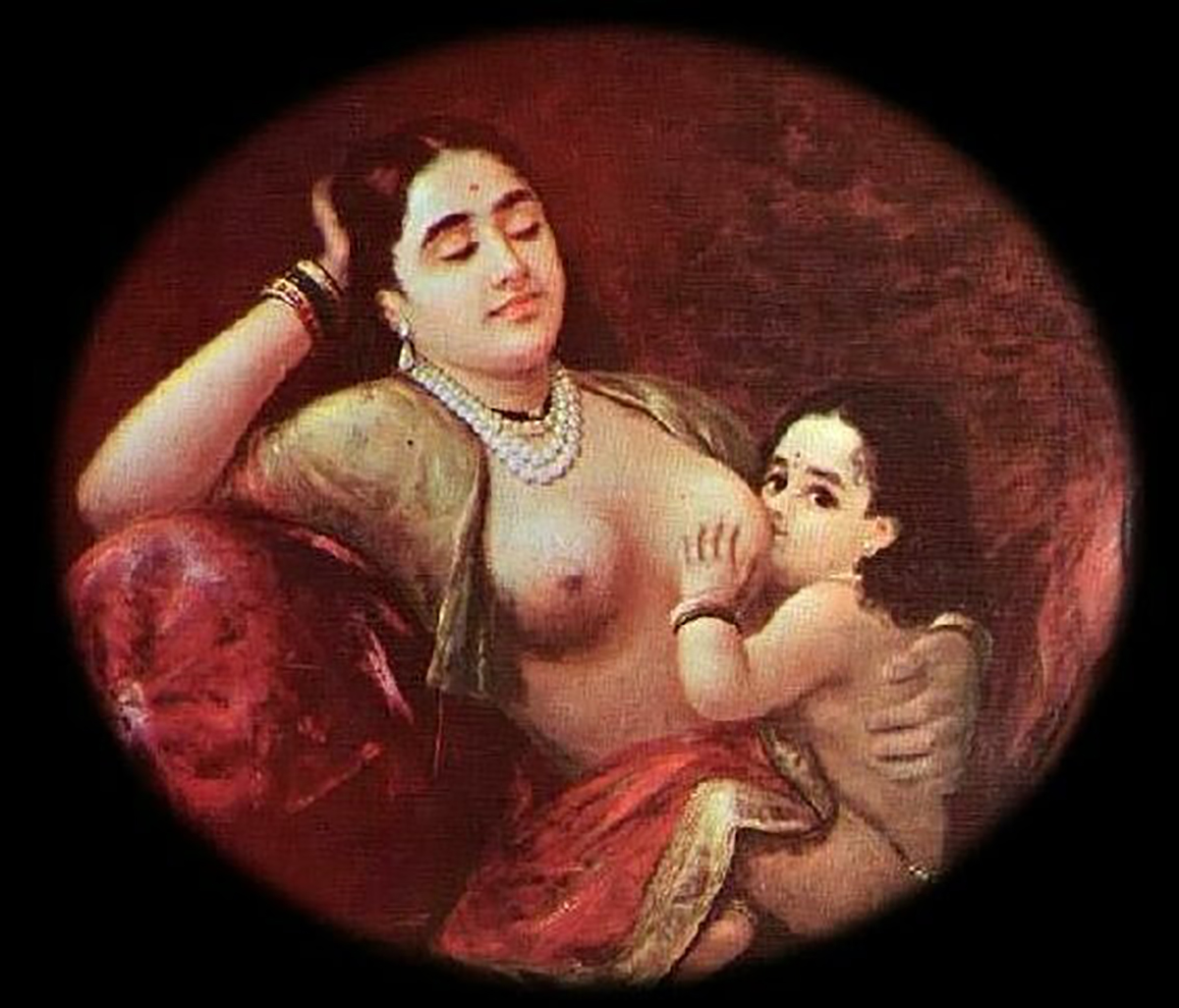 Mother feeding her child